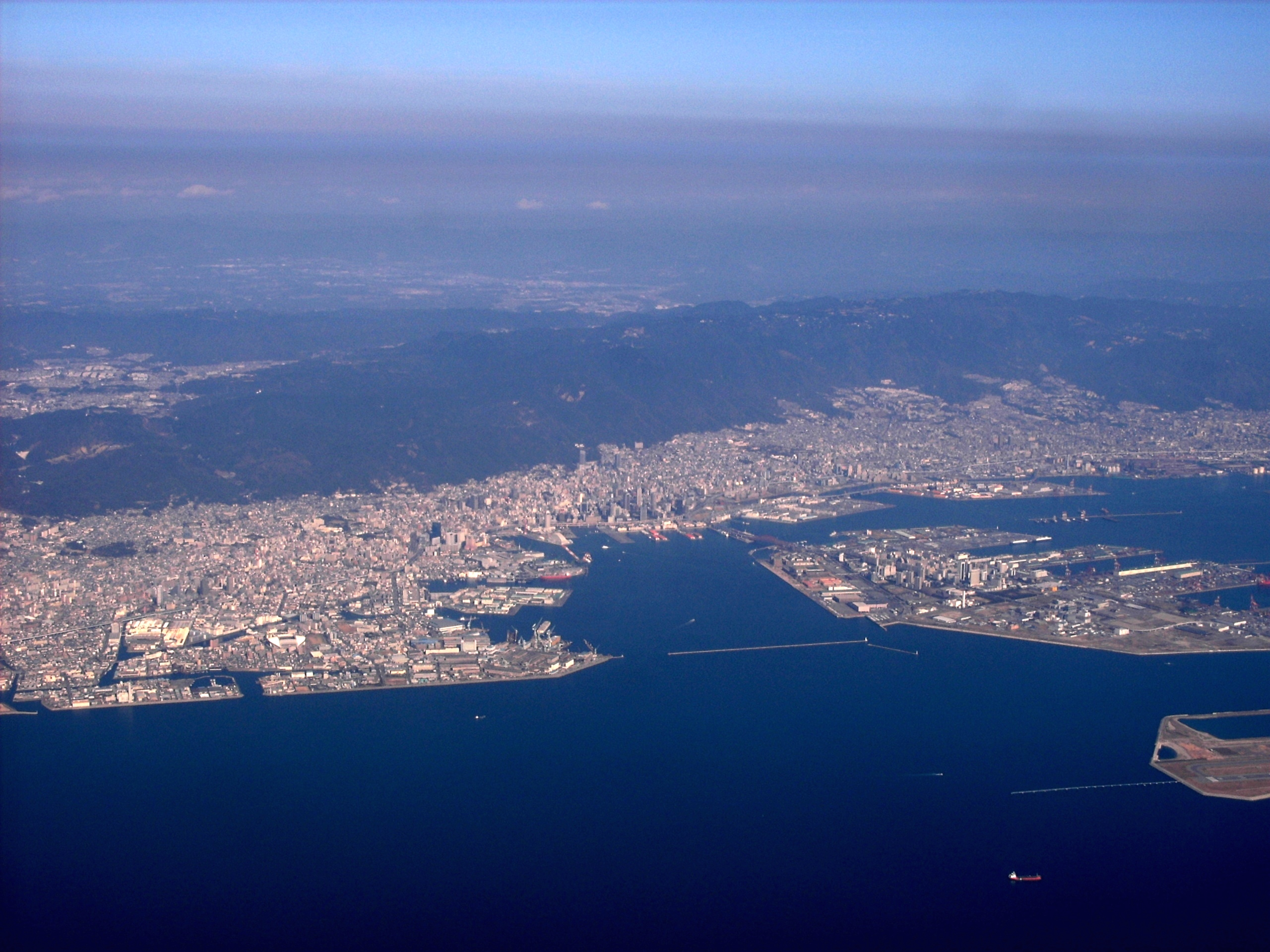 Kobe City from sky, with Rokko Mountains.